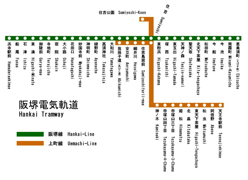 Route map